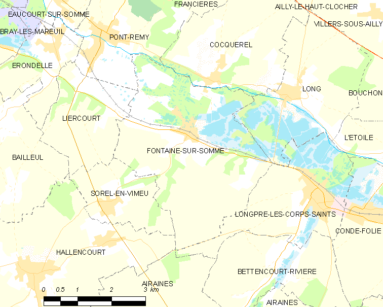 Map of French municipality Fontaine-sur-Somme